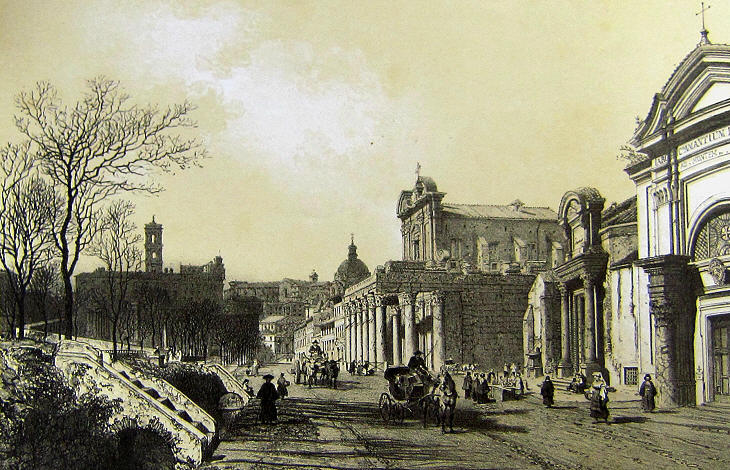 Forum Romanum - Via Sacra